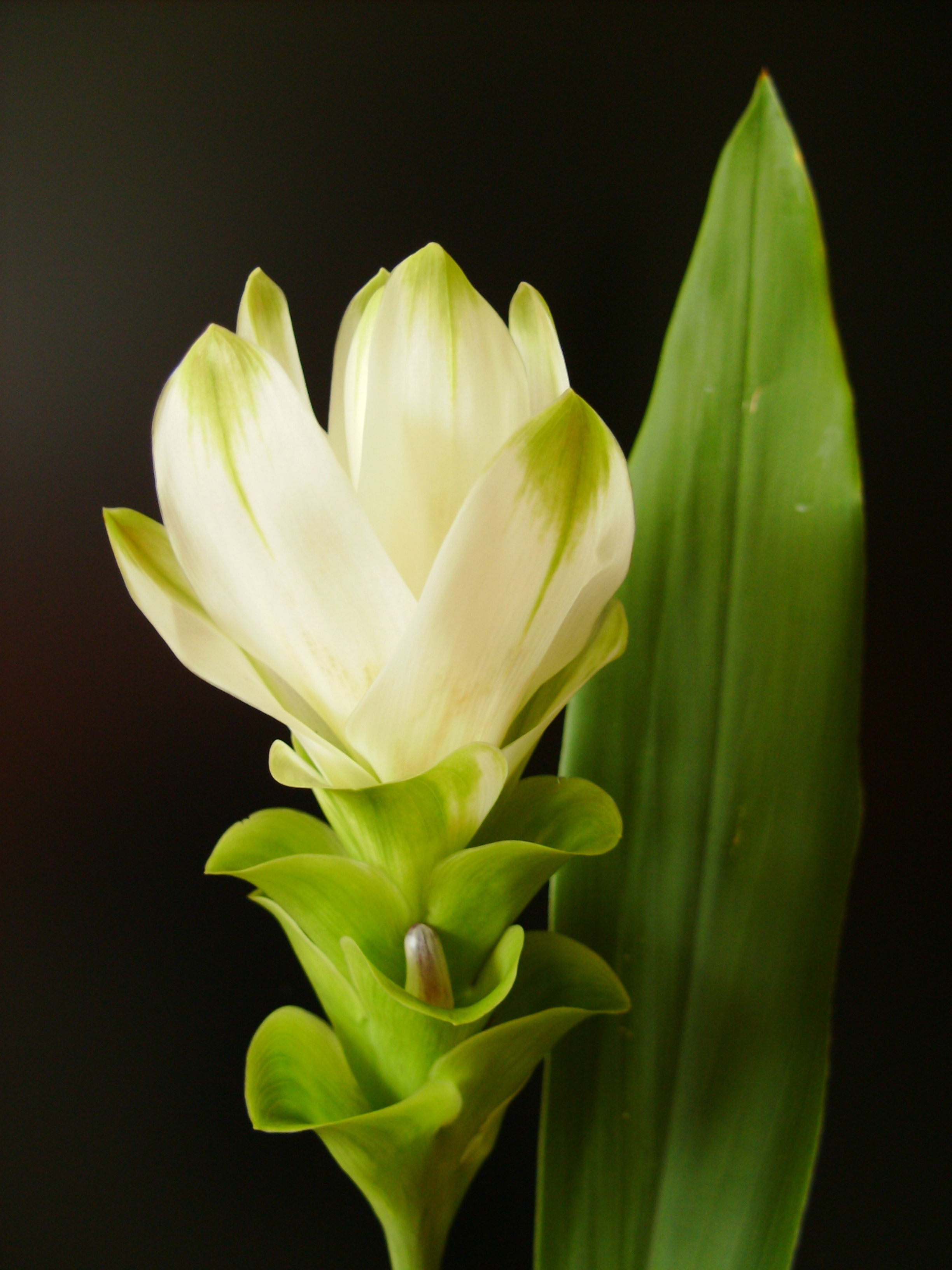 Flower of the curcuma longa